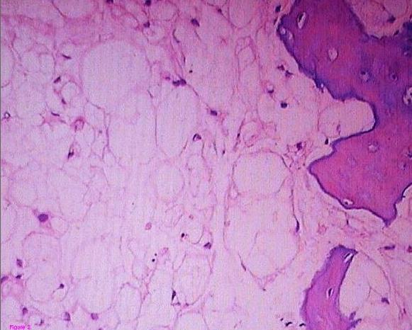 histopathology slide of chordoma in 17-year old male. Typical physaliferous cells with bone destruction can be seen.